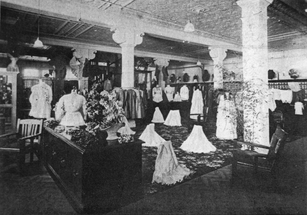 Interior of Finney Isles department store, Brisbane, 1910 Samples of dress material displayed in the fabric section of the Brisbane department store, Finney Isles.